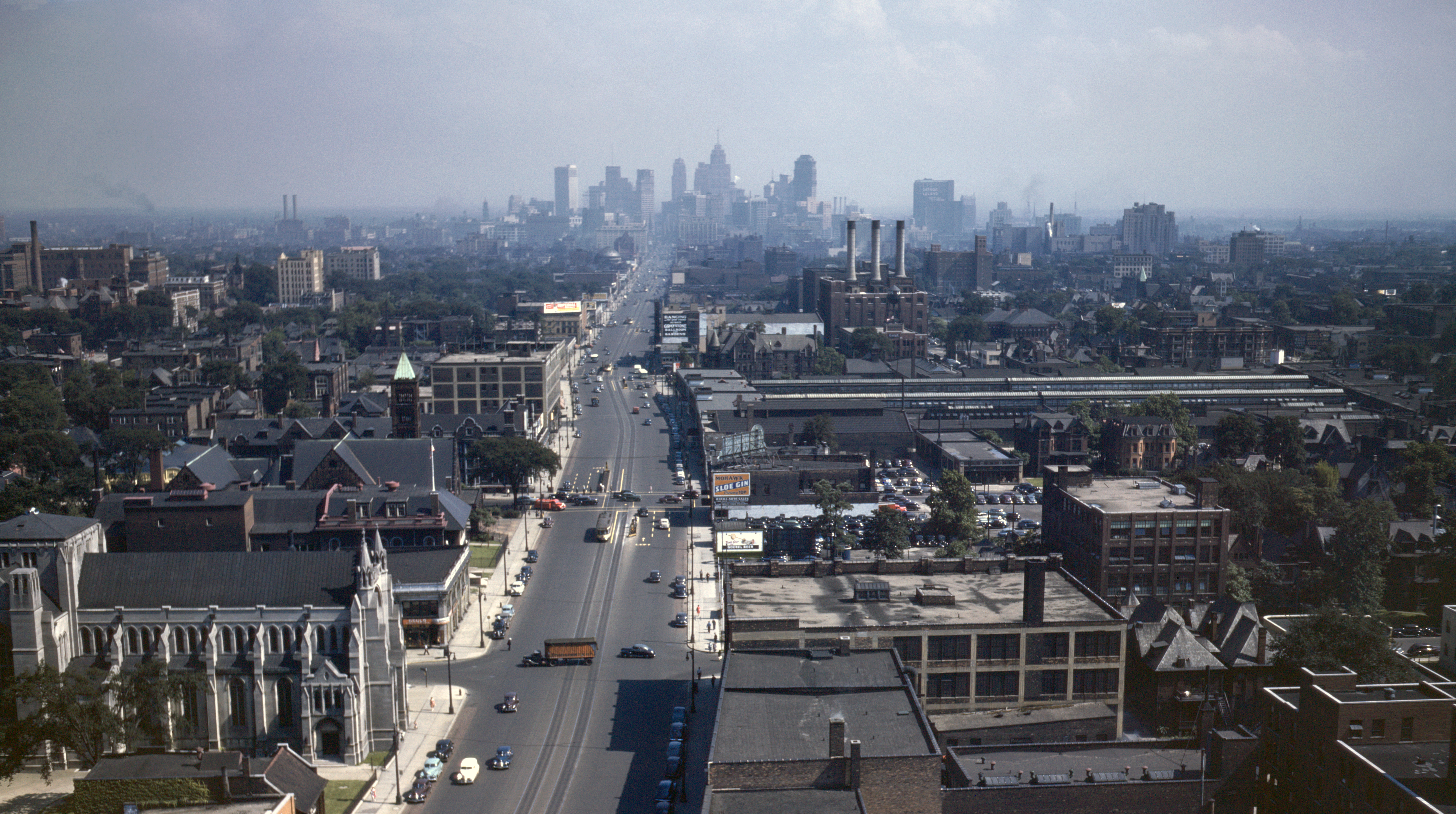 Looking south from the Maccabees Building with the Detroit skyline in the distance, Detroit, Mich. Photo shows Woodward Ave. extending south from Warren. 1 transparency : color.